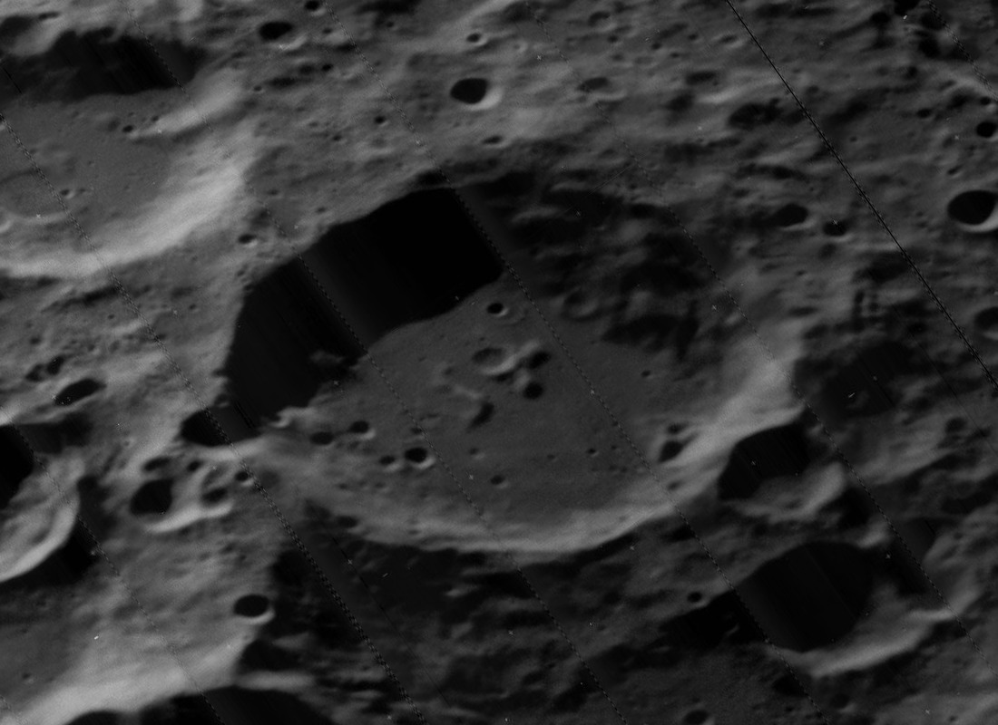 Oblique view of Esnault-Pelterie, on the far side of the moon, facing west.